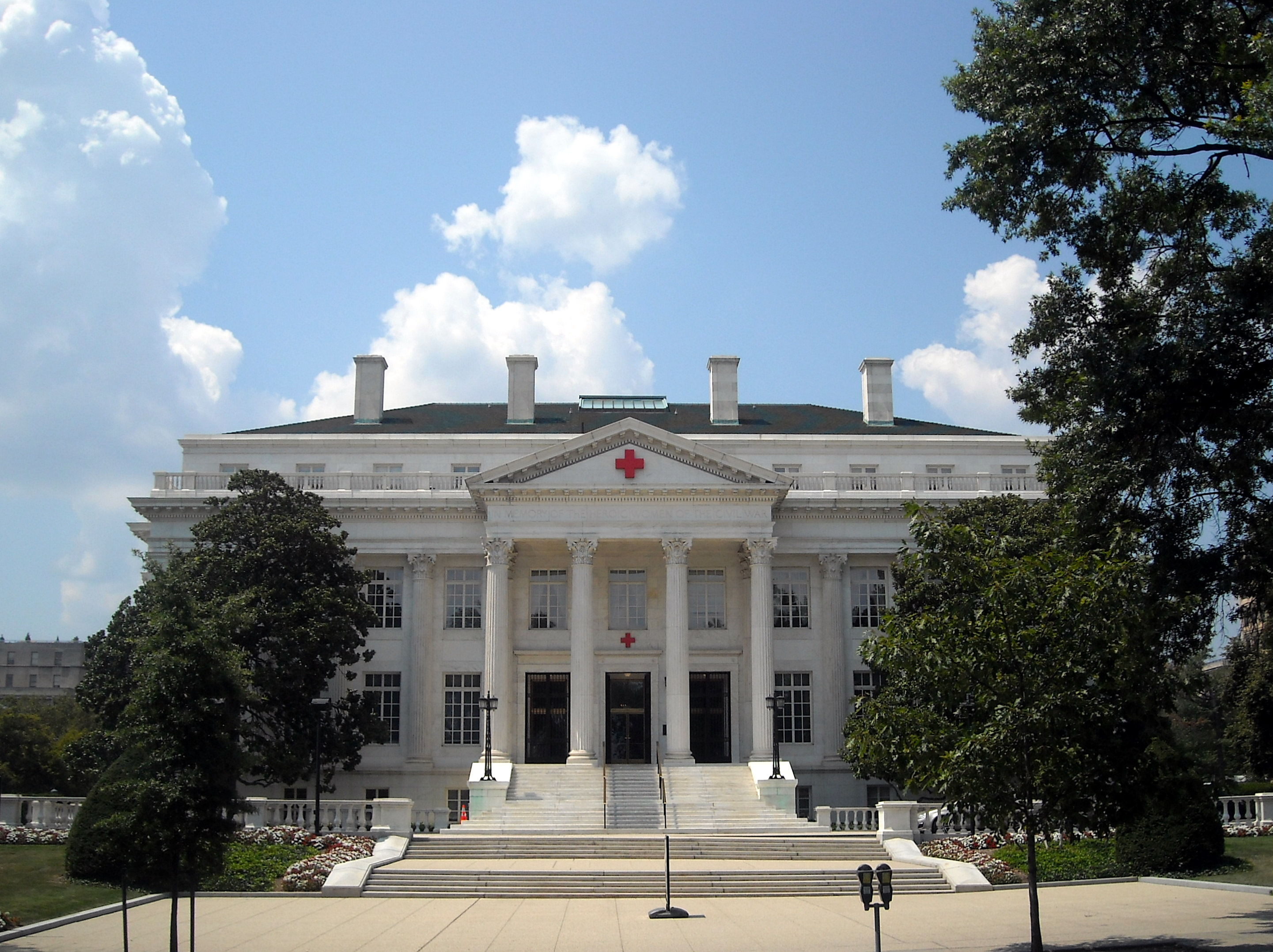 The American Red Cross National Headquarters at 17th and D Streets, NW in Washington, D.C. The building was constructed in 1915 and is an example of Beaux Arts architecture. It was declared a National Historic Landmark in 1965.